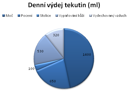 Water balance